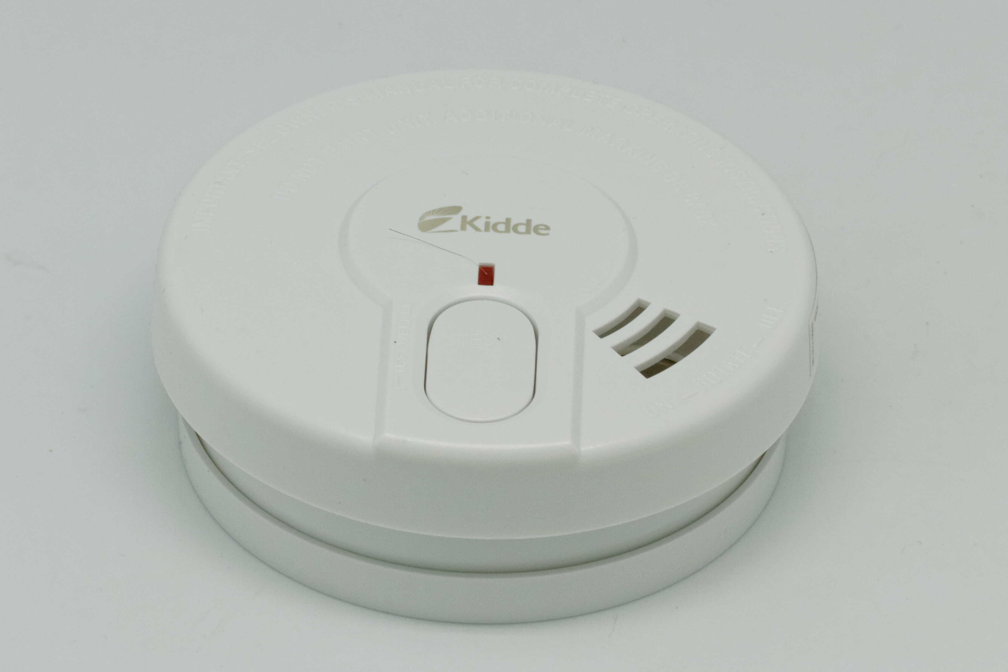 Smoke detectors